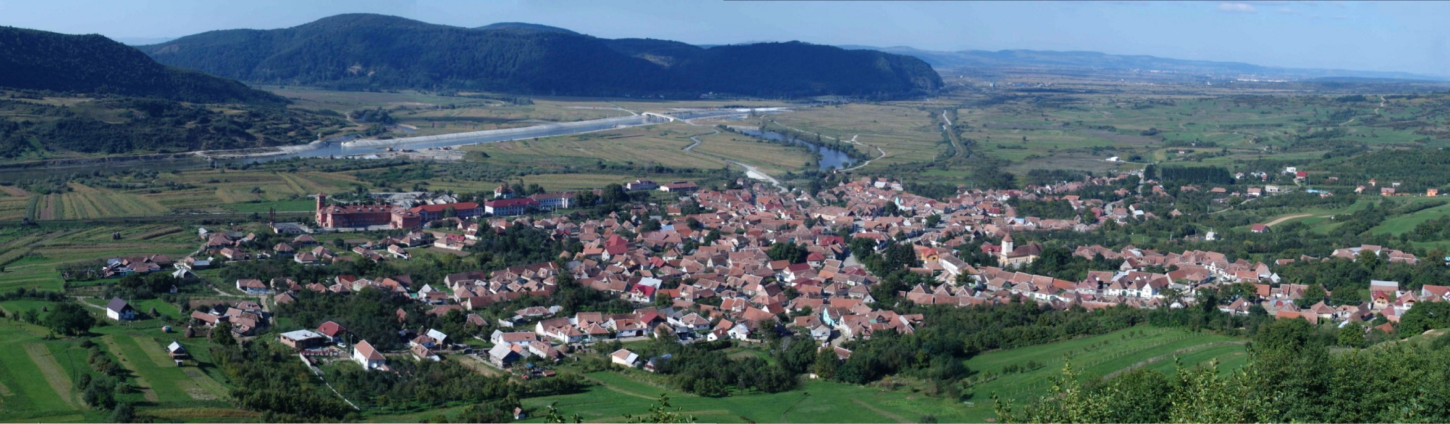 Landscape with Turnu Roşu village, Sibiu County, Romania